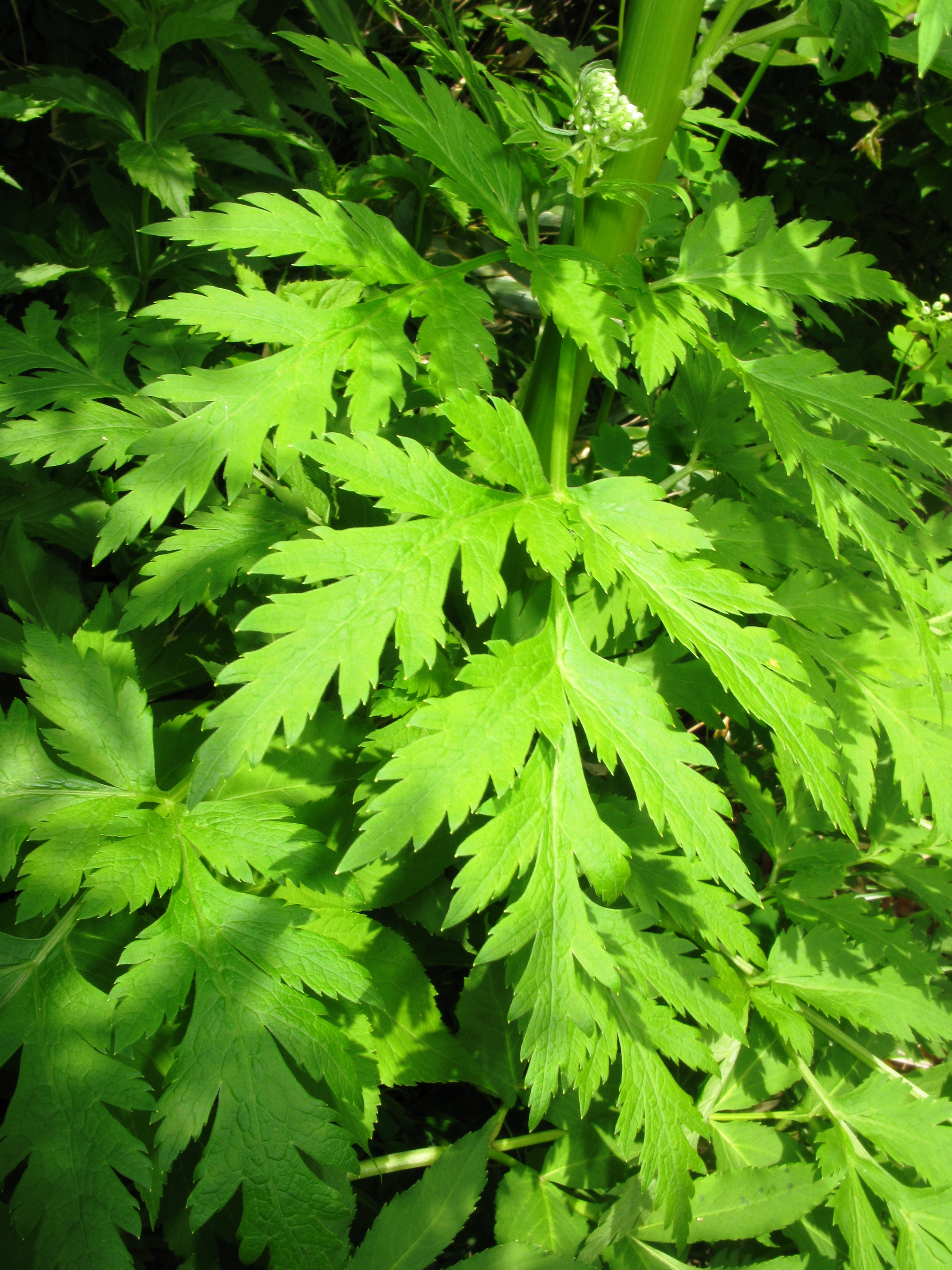 Pleurospermum uralense, Aizu area, Fukushima pref., Japan